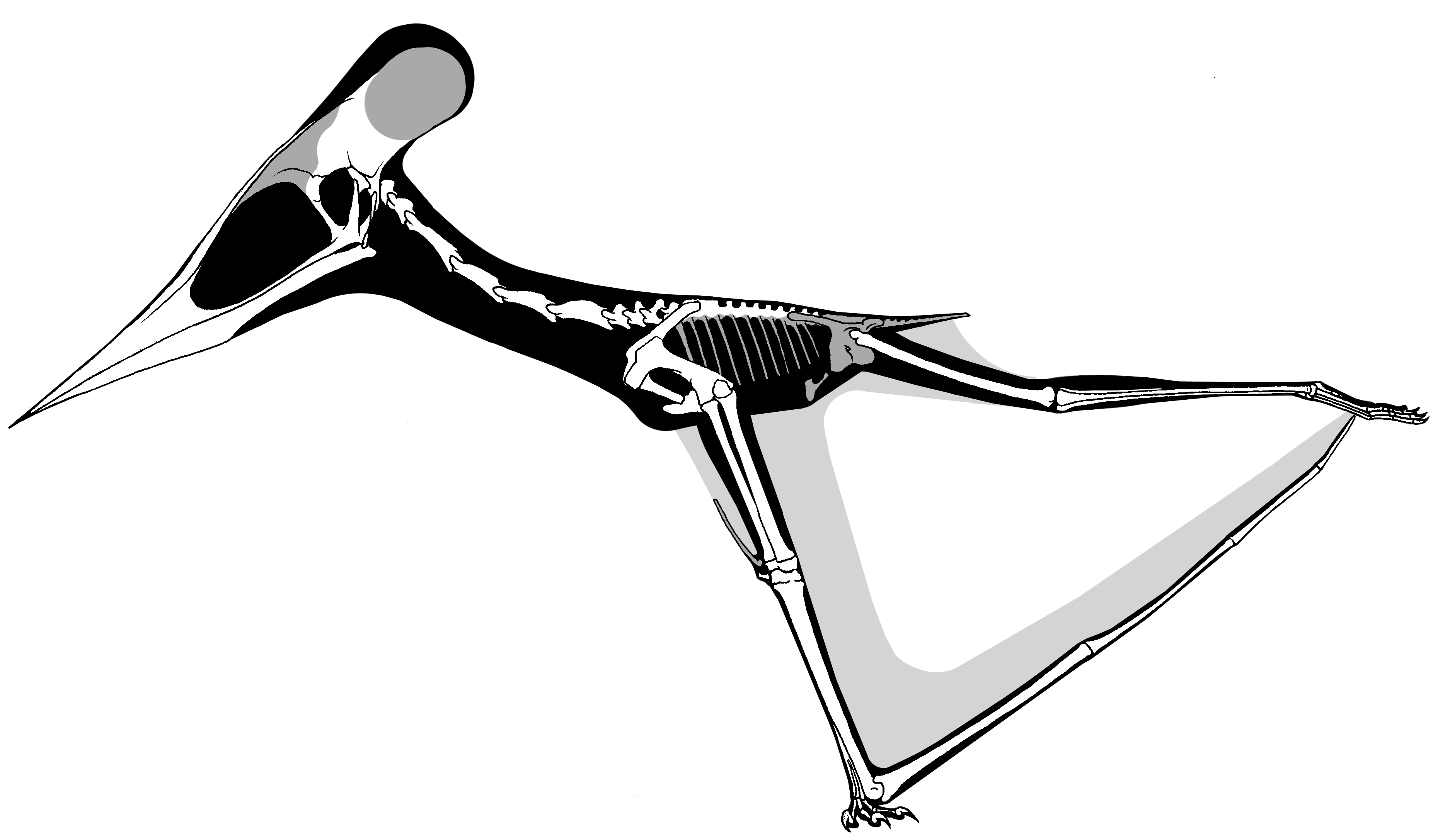 Skeletal reconstruction of Shenzhoupterus chaoyangopterus, with missing elements restored after related genera.